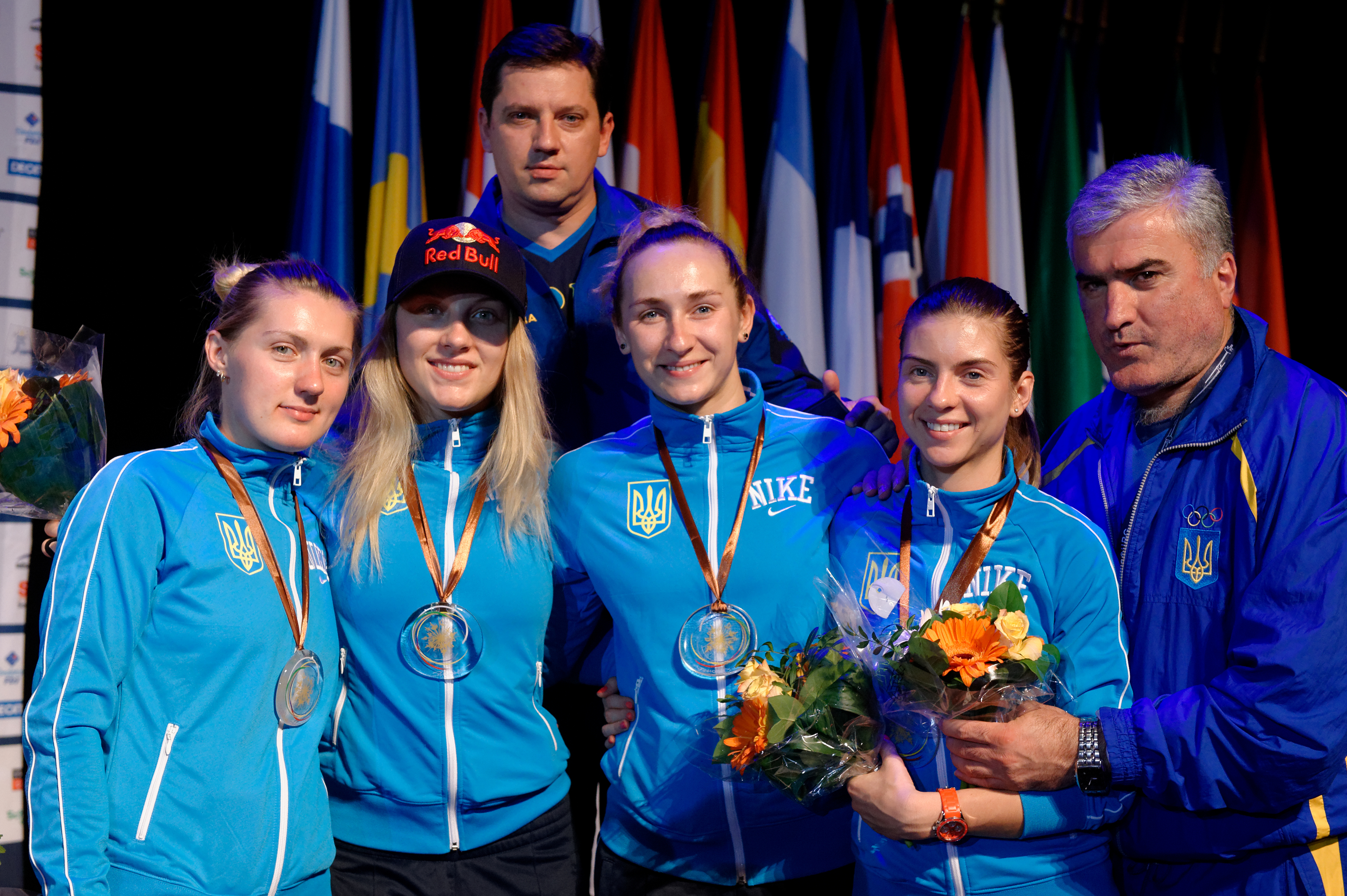 The Ukraine women's sabre team (from left to right, Olena Voronina, Olha Kharlan, Olha Zhovnir, and Halyna Pundyk) and their coaches (from left to right, Artem Skorokhod and Garnik Davidian) pose with their medals at award ceremony of the European Fencing Championships at Rhénus Sport in Strasbourg on 13 June 2014.